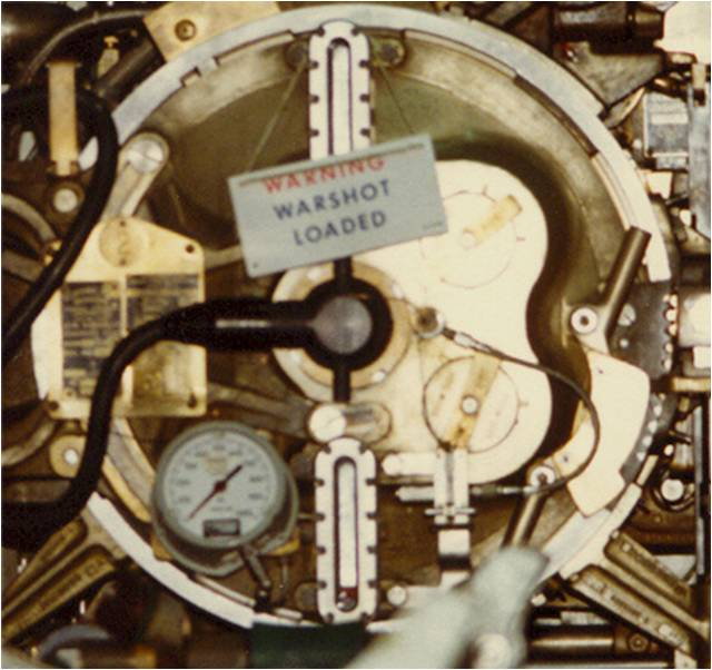 Warshot SSBN Torpedo Tube